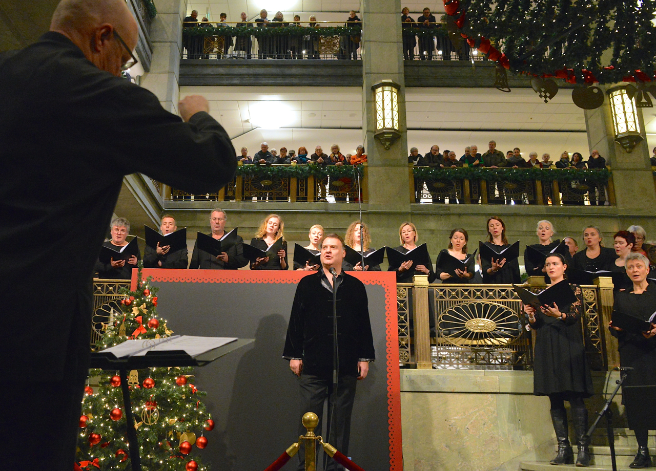 Bryn Terfel in Stockholm in december 2013.